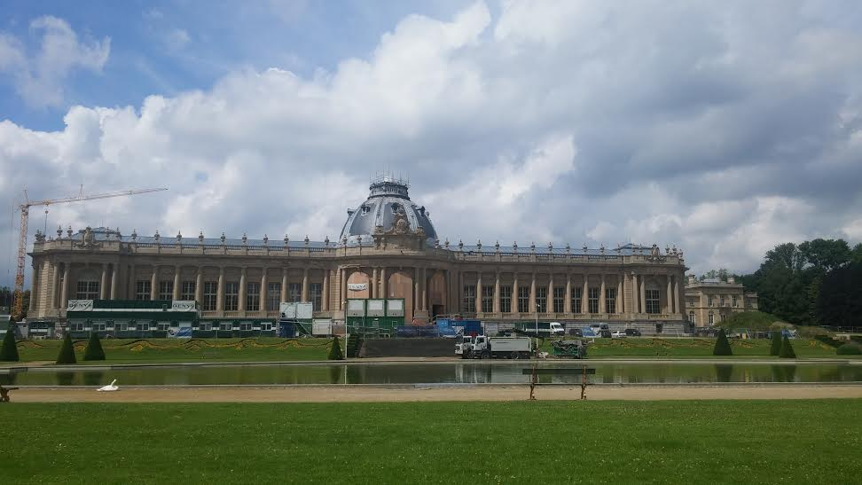 Royal Museum for Central Africa during refurbishments, 2016